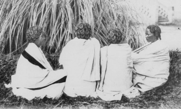 Betsileo hair cut, Madagascar, 1908